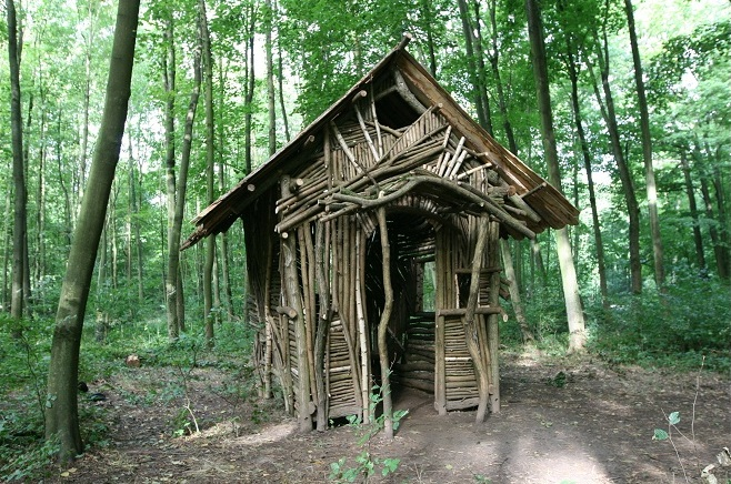 "Forest House" (C)2010, (permanent installation), Darmstadt, Germany. Invitational International Biennial, "Internationalen Waldkunstpfad"